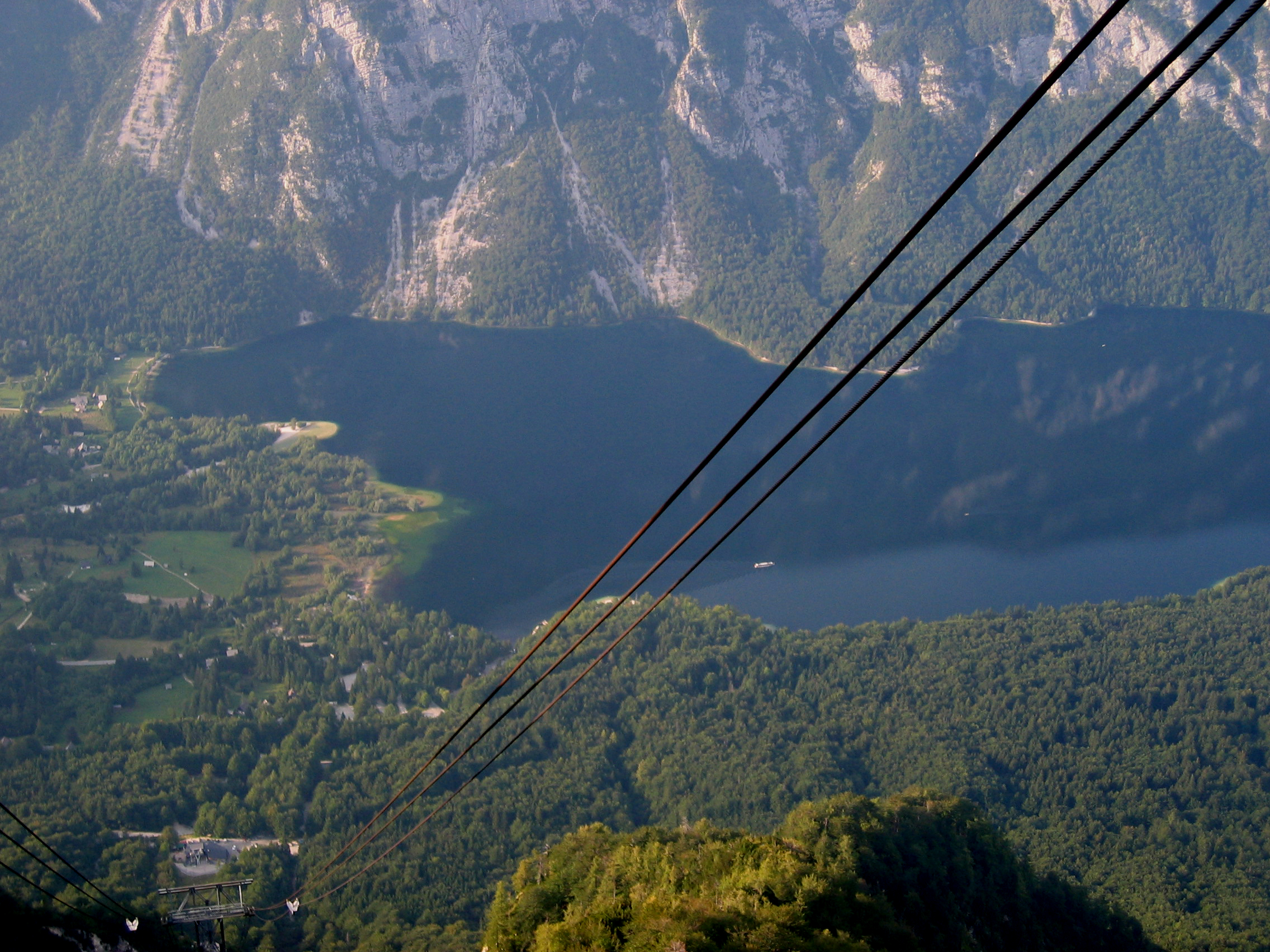 Vogel, ski resort in Julian Alps, Slovenia (summer) photo:Ziga 19:18, 29 December 2006 (UTC)